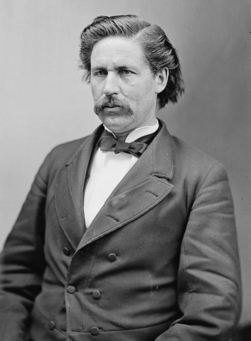 Powers, Hon. Lewellyn of Maine